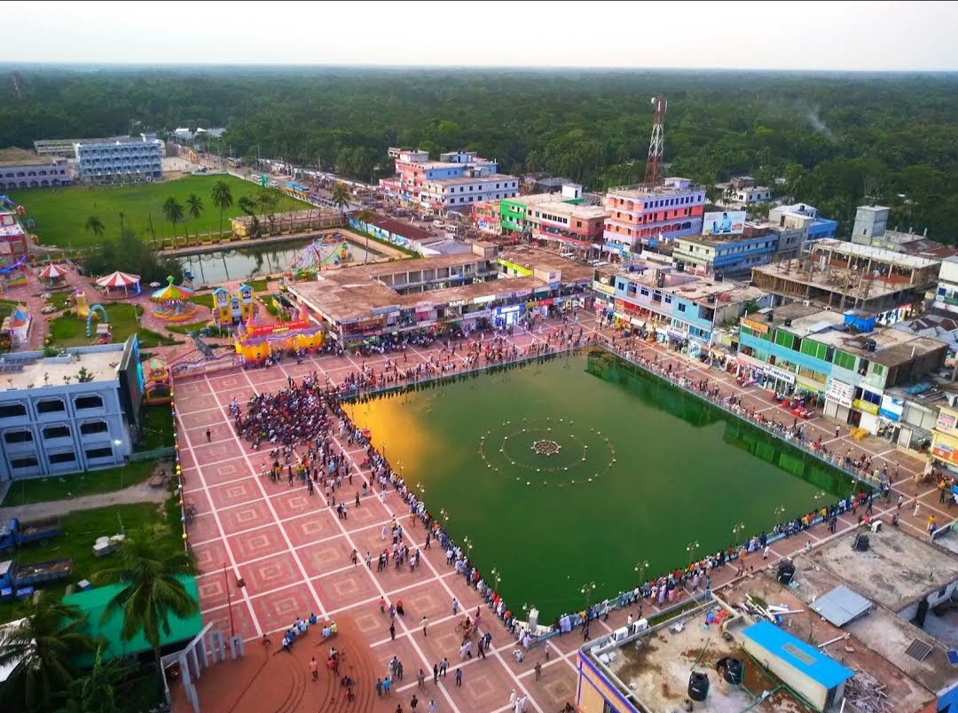 Fashion Square from the top of Jakob Tower Аҧсшәа: জ্যাকব টাওয়ারের উপর থেকে ফ্যাশন স্কয়ার